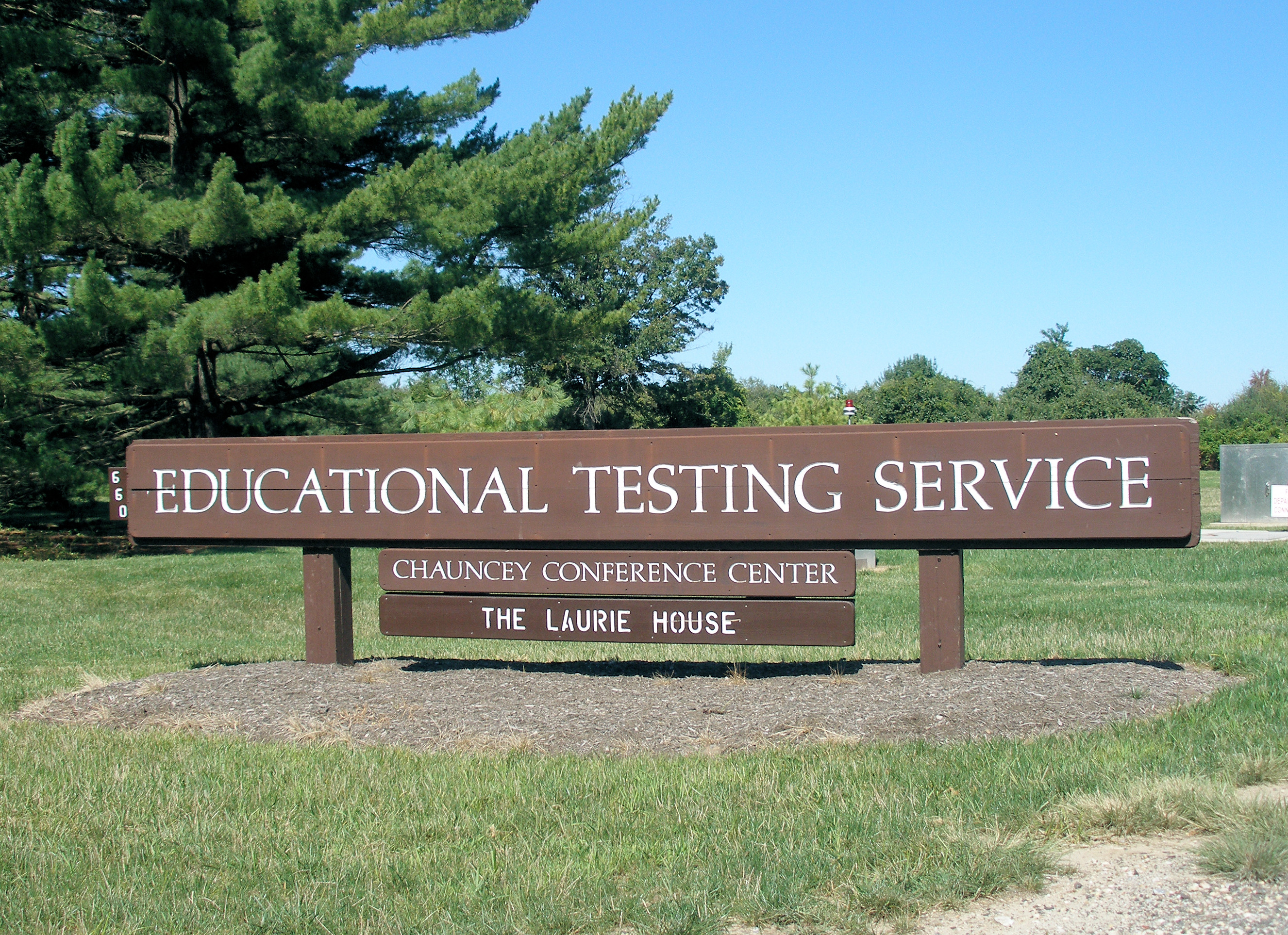 Welcome sign at the entrance to the headquarters complex of the Educational Testing Service in Lawrence Township on Rosedale Road.